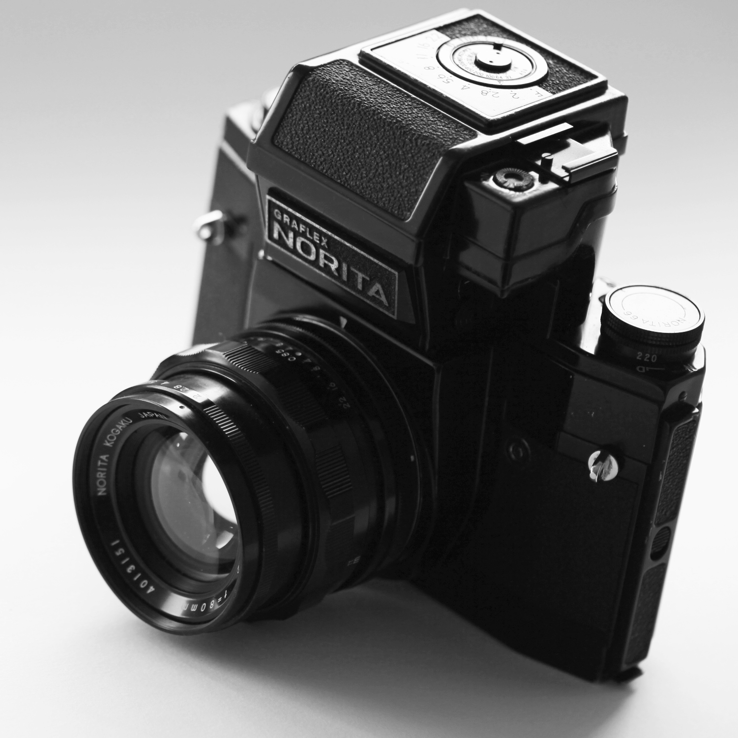 Taken with my 5DMII More info on this